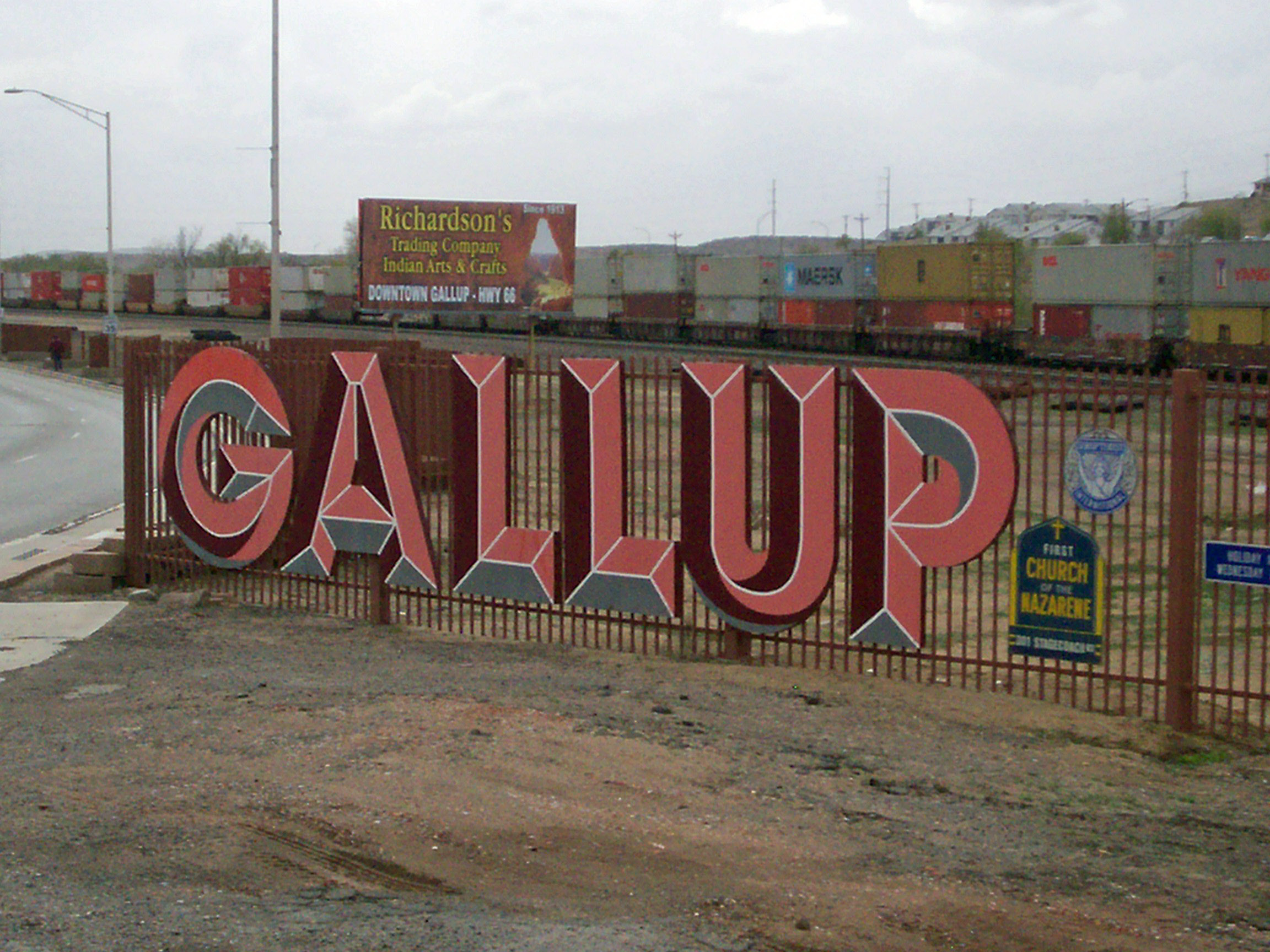 Gallup, New Mexico sign along old Route 66.